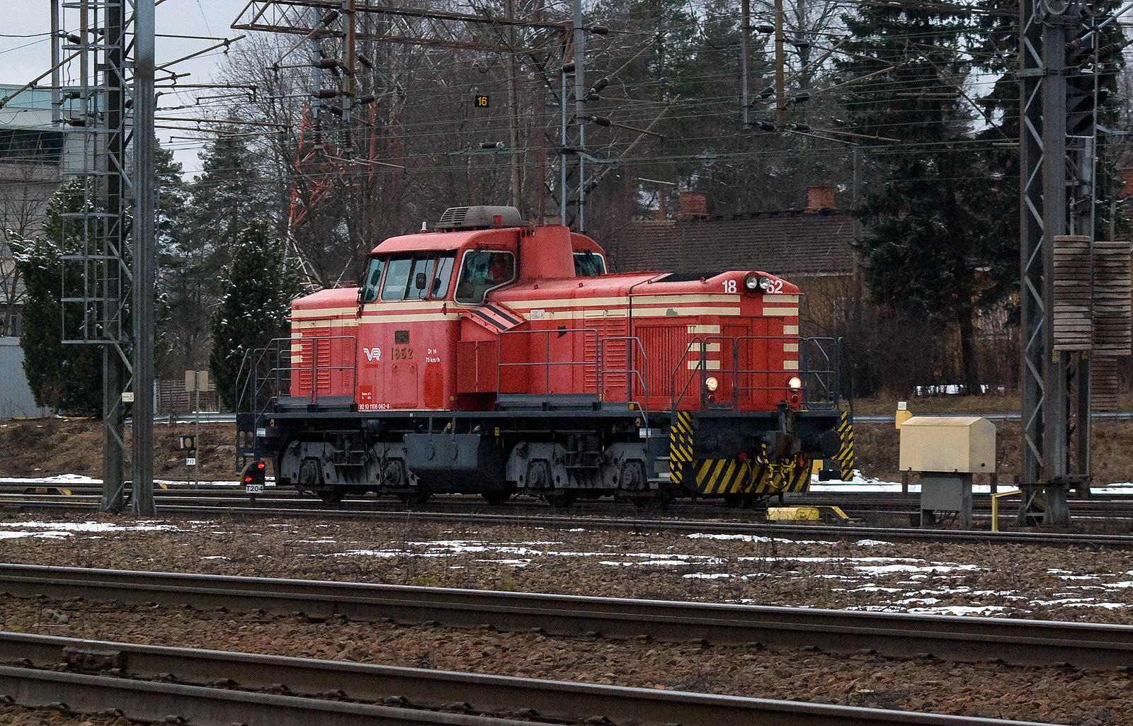 VR Class Dr14 locomotive (no. 1862) in Kouvola, Finland